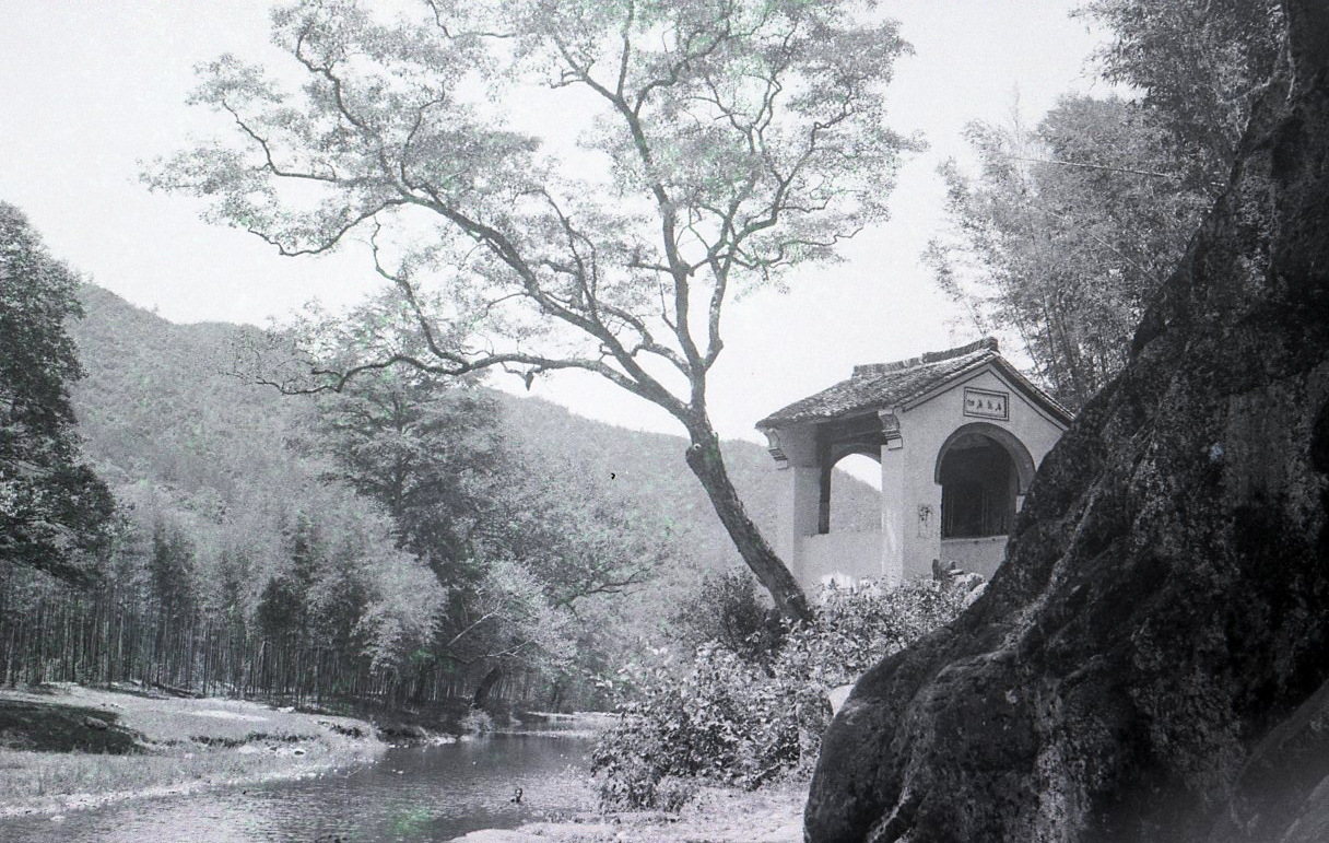 Chinese countryside.